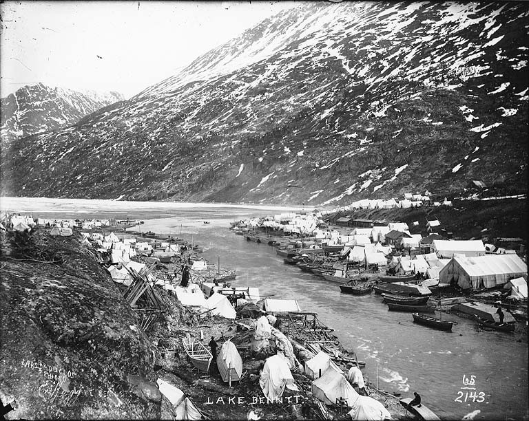 Shows One Mile River between Bennett Lake and Lindeman Lake, tent city, scows tied to shore and boat building . Caption on image: "Lake Benntt" Original photograph by Eric A. Hegg 73A; copied by Larss and Duclos . No. 65 and 2143 appear in lower right corner . Klondike Gold Rush. Subjects (LCTGM): Rivers--British Columbia; Lakes--British Columbia; Tents--British Columbia--Bennett; Scows--British Columbia--Bennett Subjects (LCSH): One Mile River (B.C.); Bennett, Lake (B.C.)